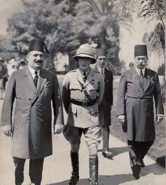 King Fuad I of Egypt along with the Prince of Wales Edward VIII - King Edward VIII later - accompanied by Mohamed Sa'id Paşa Zulfiqar, in the garden of Abdeen Palace in 1932.